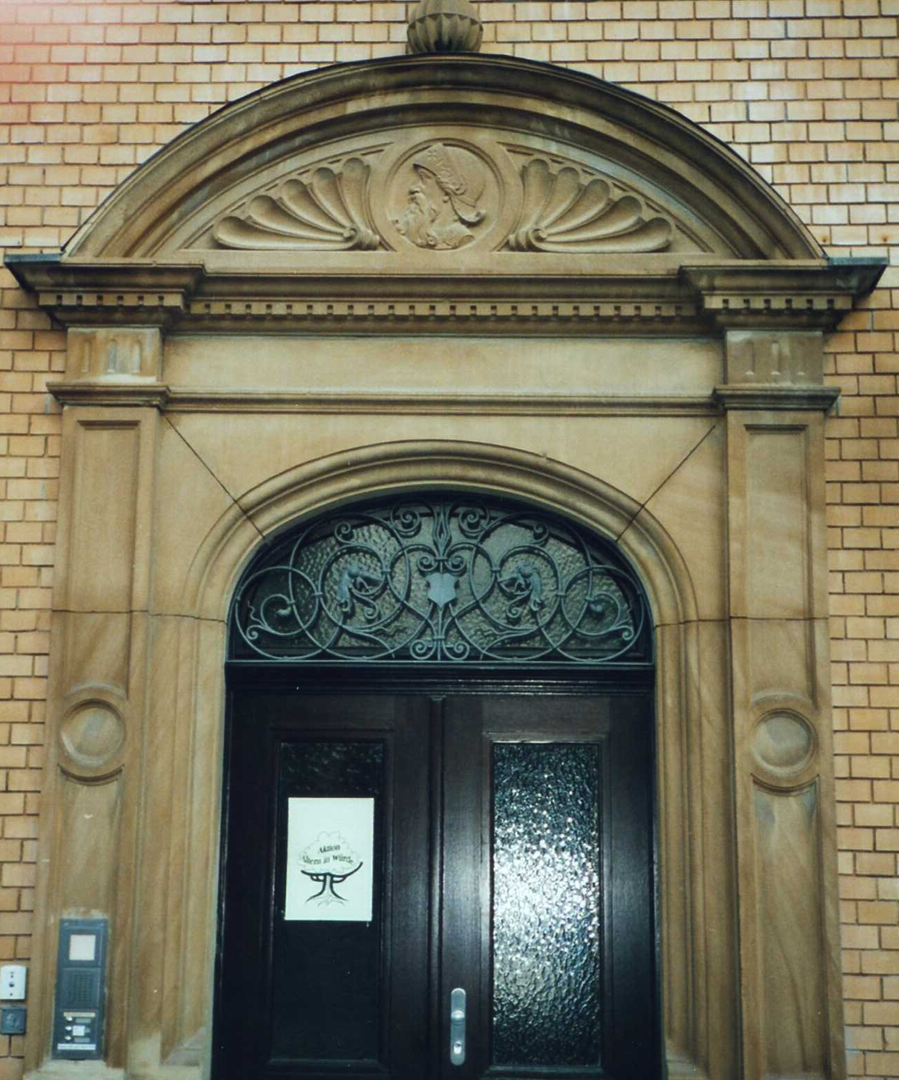 Heilbronn